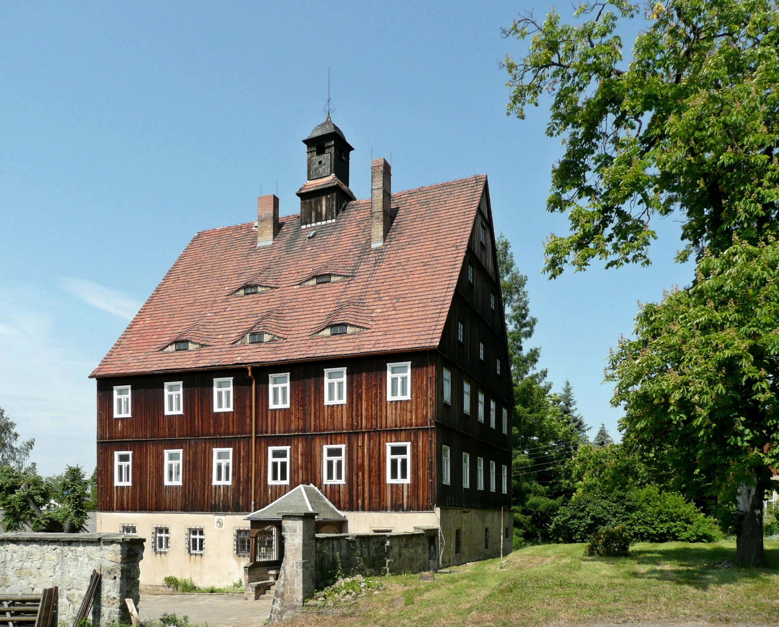 This image shows the forestry office (built 1607) in Cunnersdorf near Gorhisch in the Saxon Switzerland.